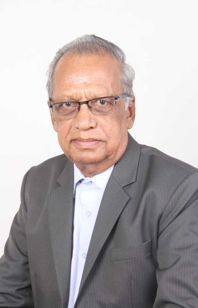 Profile picture of Vakkantham Suryanaryana Rao